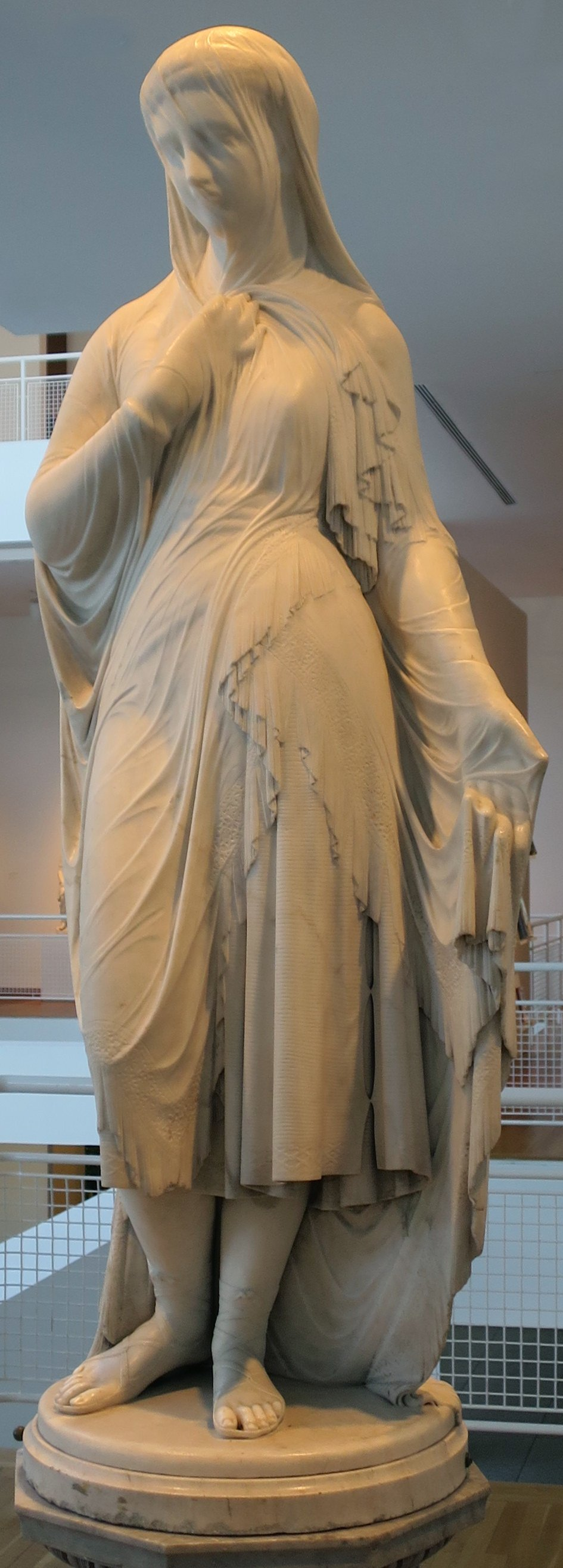 The Veiled Rebekah by Giovanni Maria Benzoni, white marble, 1864, High Museum of Art